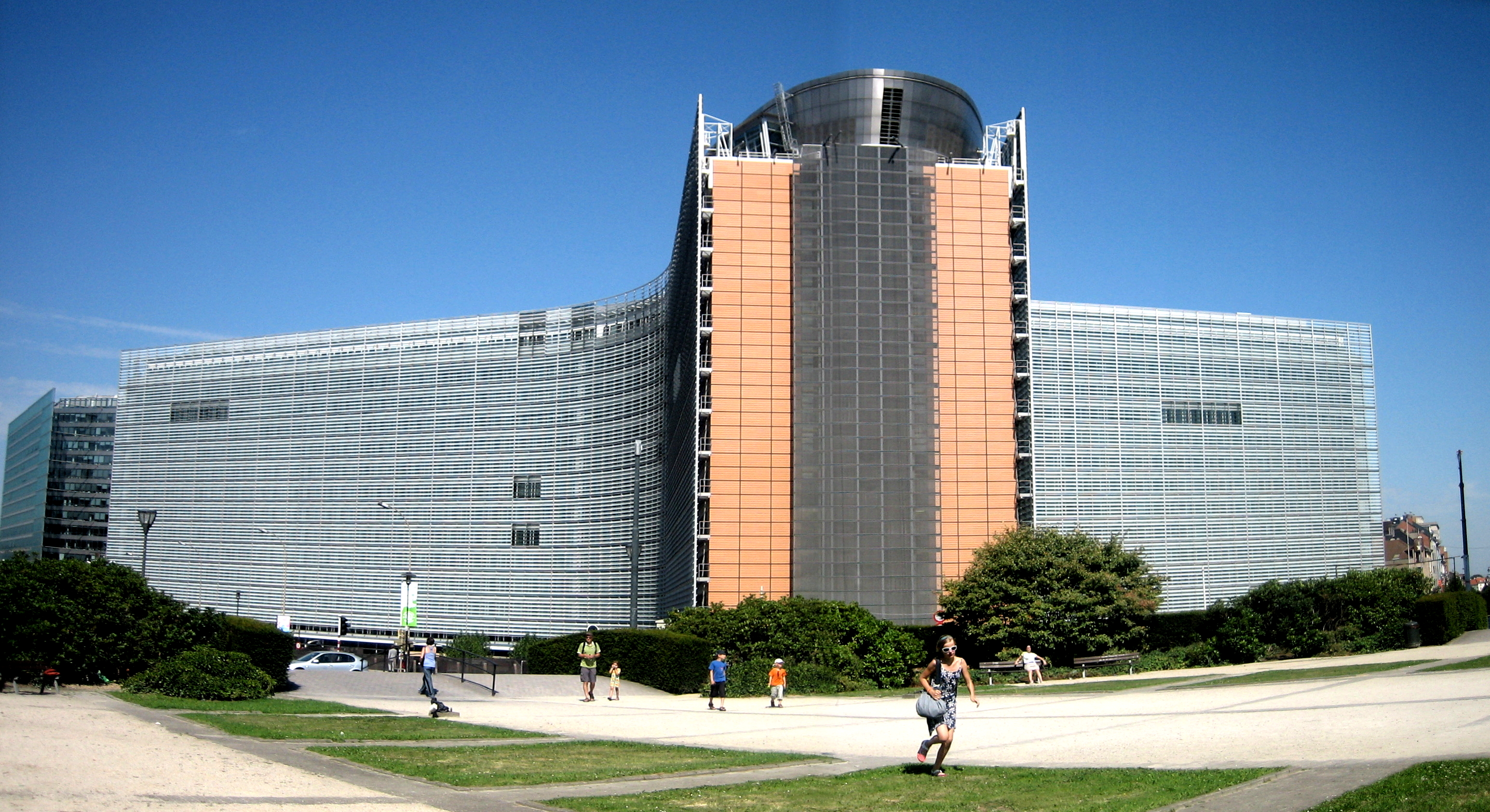 The Berlaymont building of the European Commission. Seen from Schuman Roundabout. (east facing west)